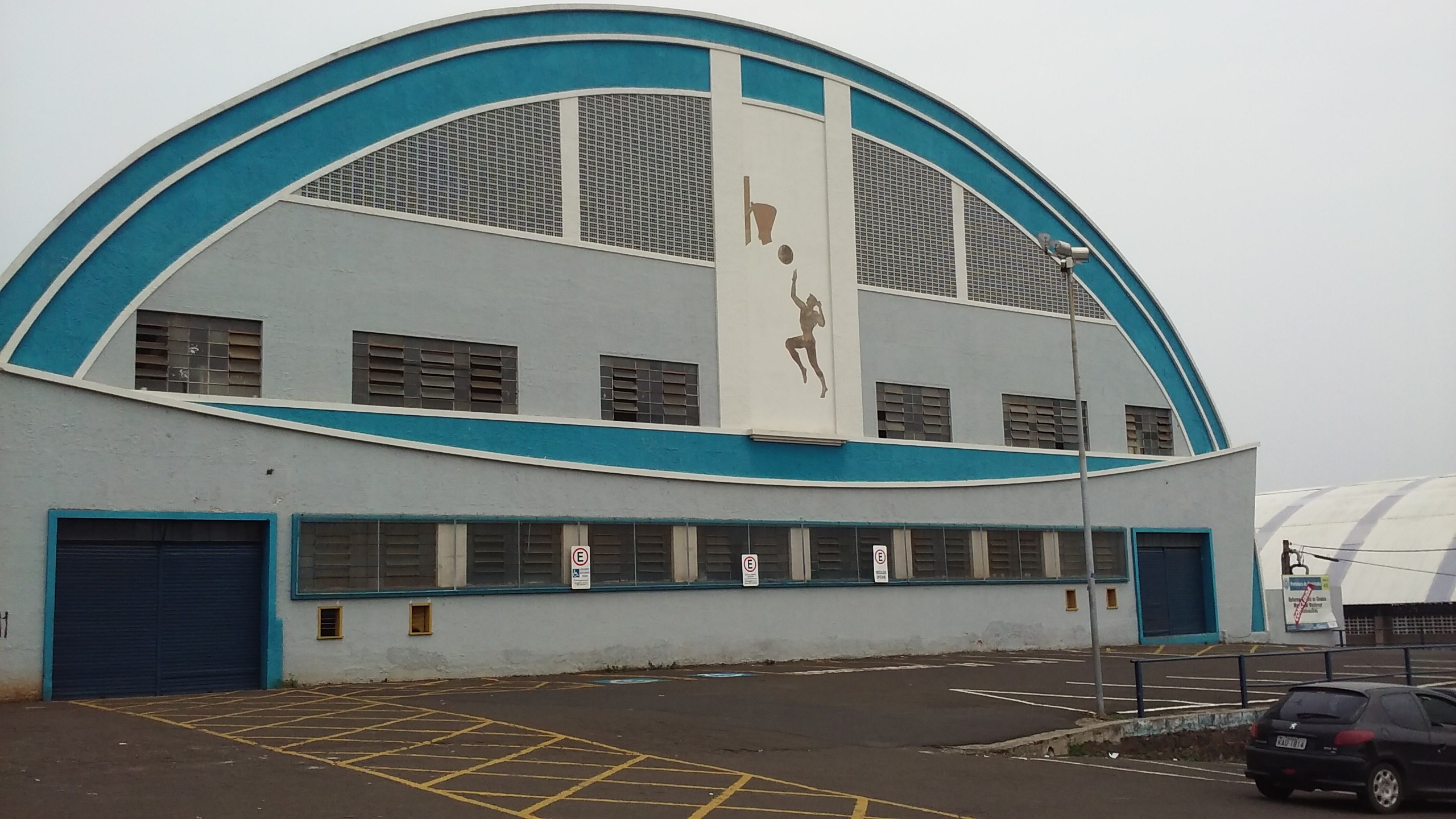 Sports venue in Piracicaba, São Paulo, Brazil